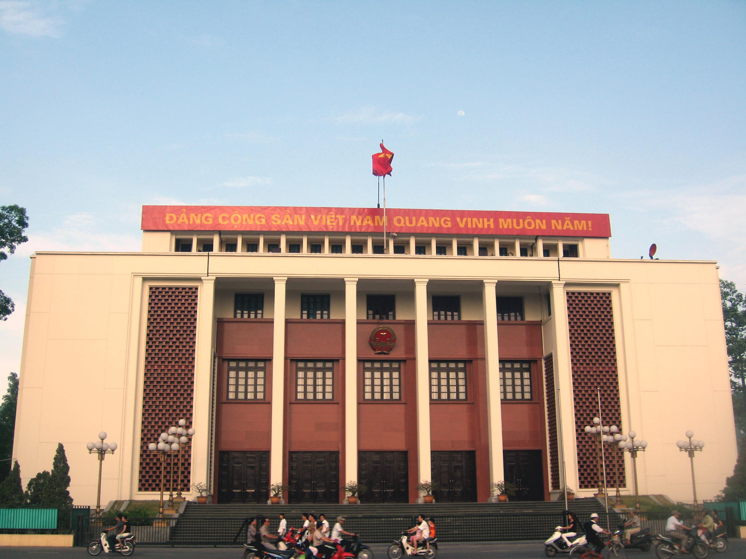 The Ba Dinh meeting-hall of Vietnam National Assembly